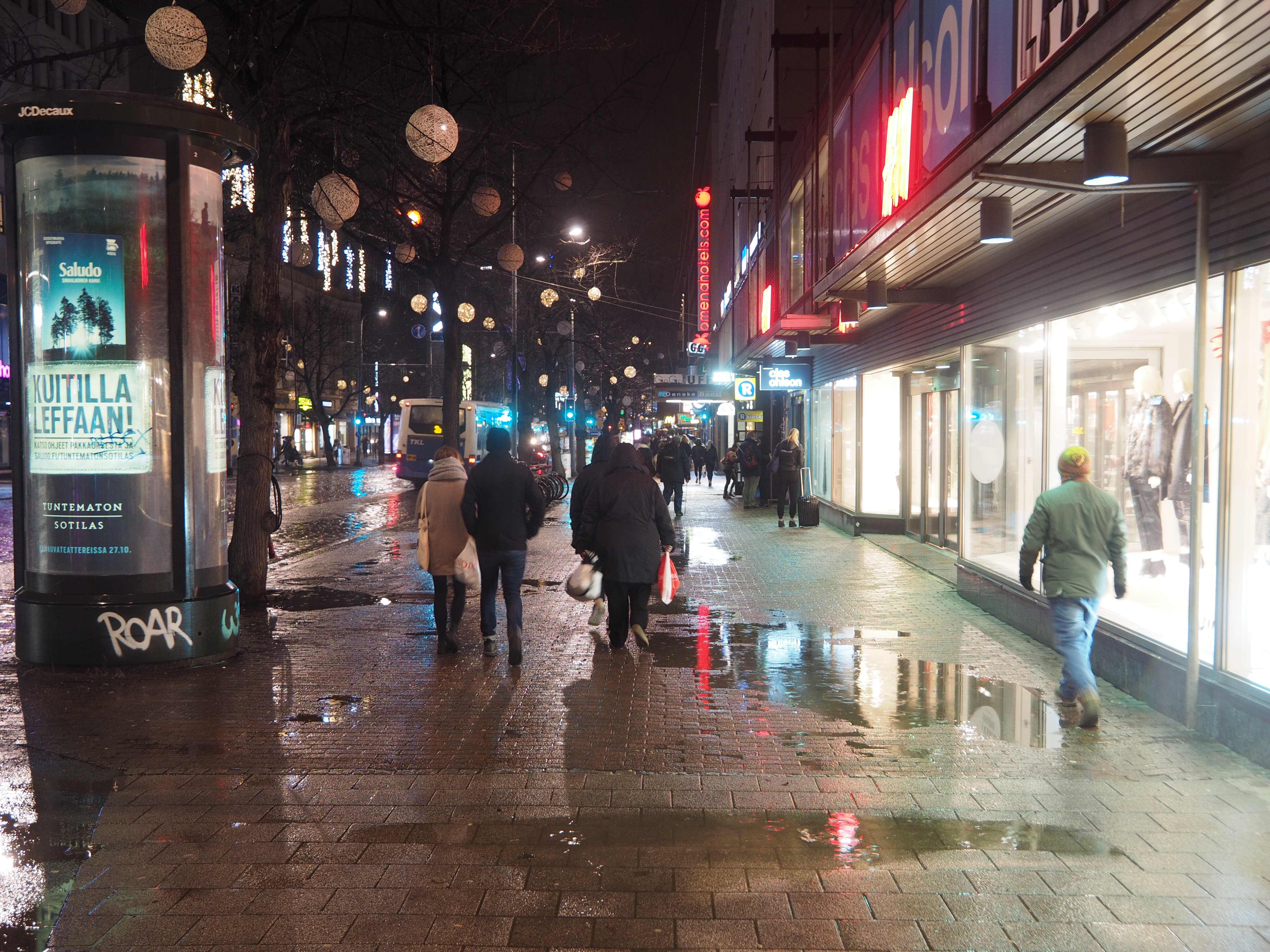 Hämeenkatu, the main street of Tampere, Finland, on a late November evening.